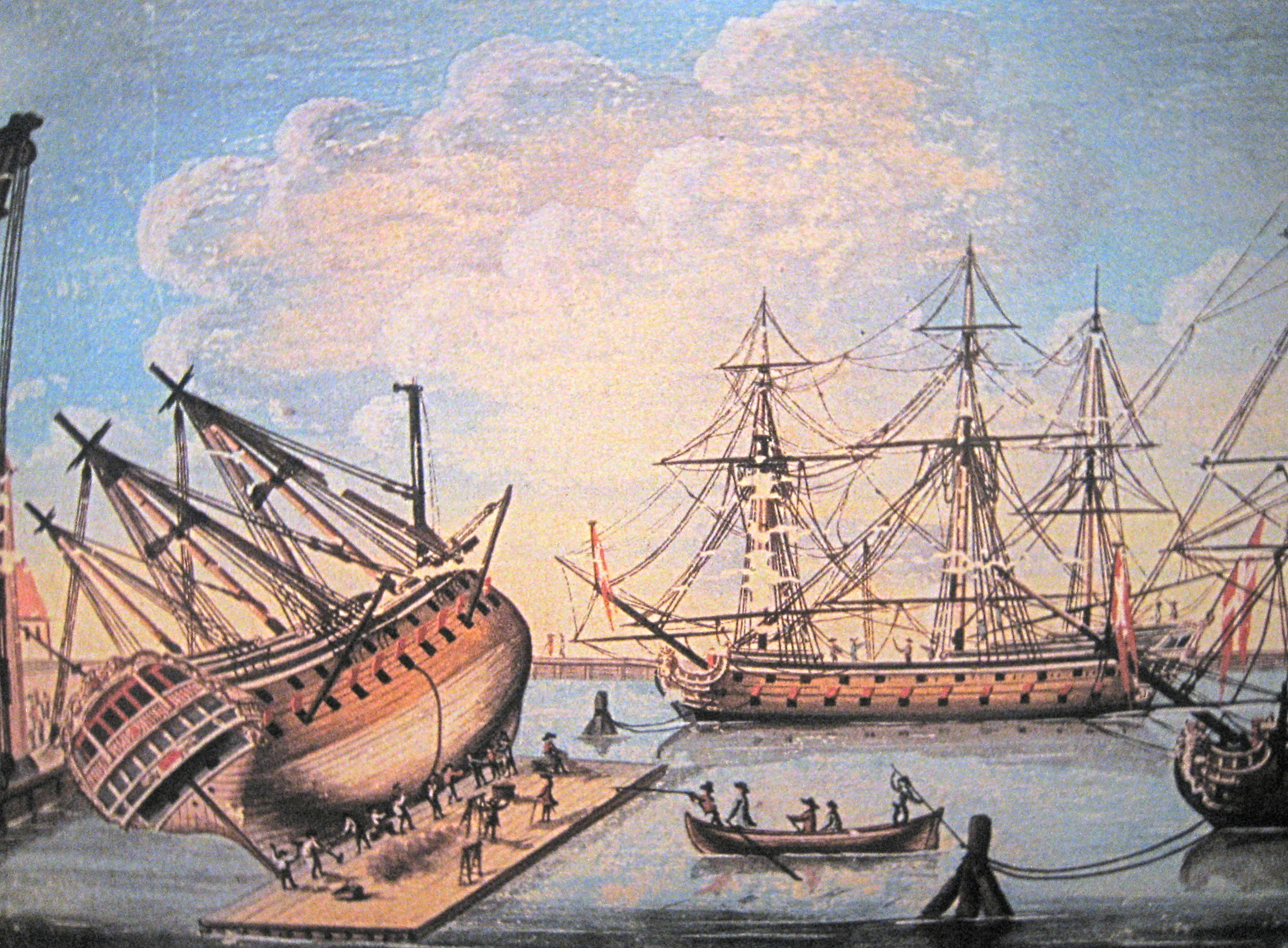 Careening at Nyholmen. Gouache by C.M.C. Rønneby, c. 1750 (copy).